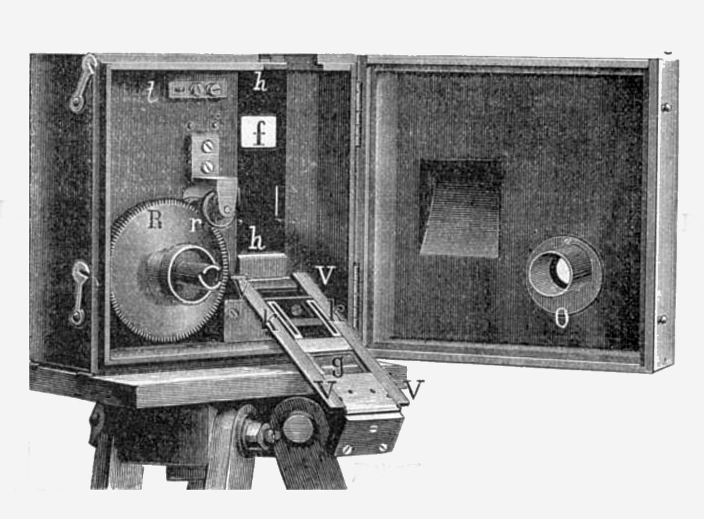 Cinematographe Camera open SCANNED the IMAGE (& processed it) from LE MAGAZINE DU SIECLE (year 1897) Beeing 114 years old there is no copyright